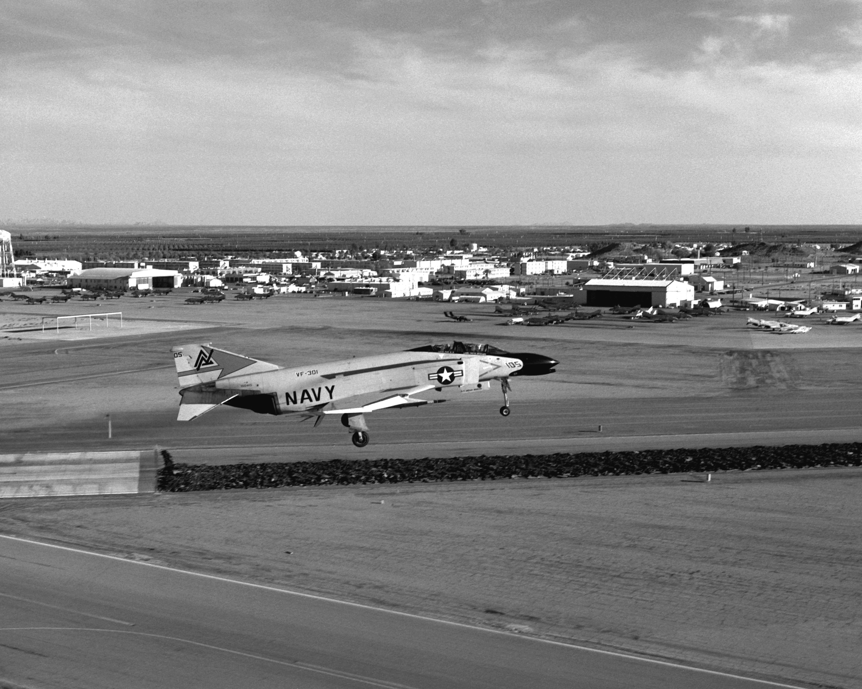 A U.S. Naval Reserve McDonnell Douglas F-4N Phantom II aircraft (s/n 150415) from fighter squadron VF-301 Devil's Deciples assigned to Reserve Carrier Air Wing 30 (CVWR-30) preparing to land during the second annual reserve fighter derby at Marine Corps Air Station Yuma, Arizona (USA), on 7 March 1980.